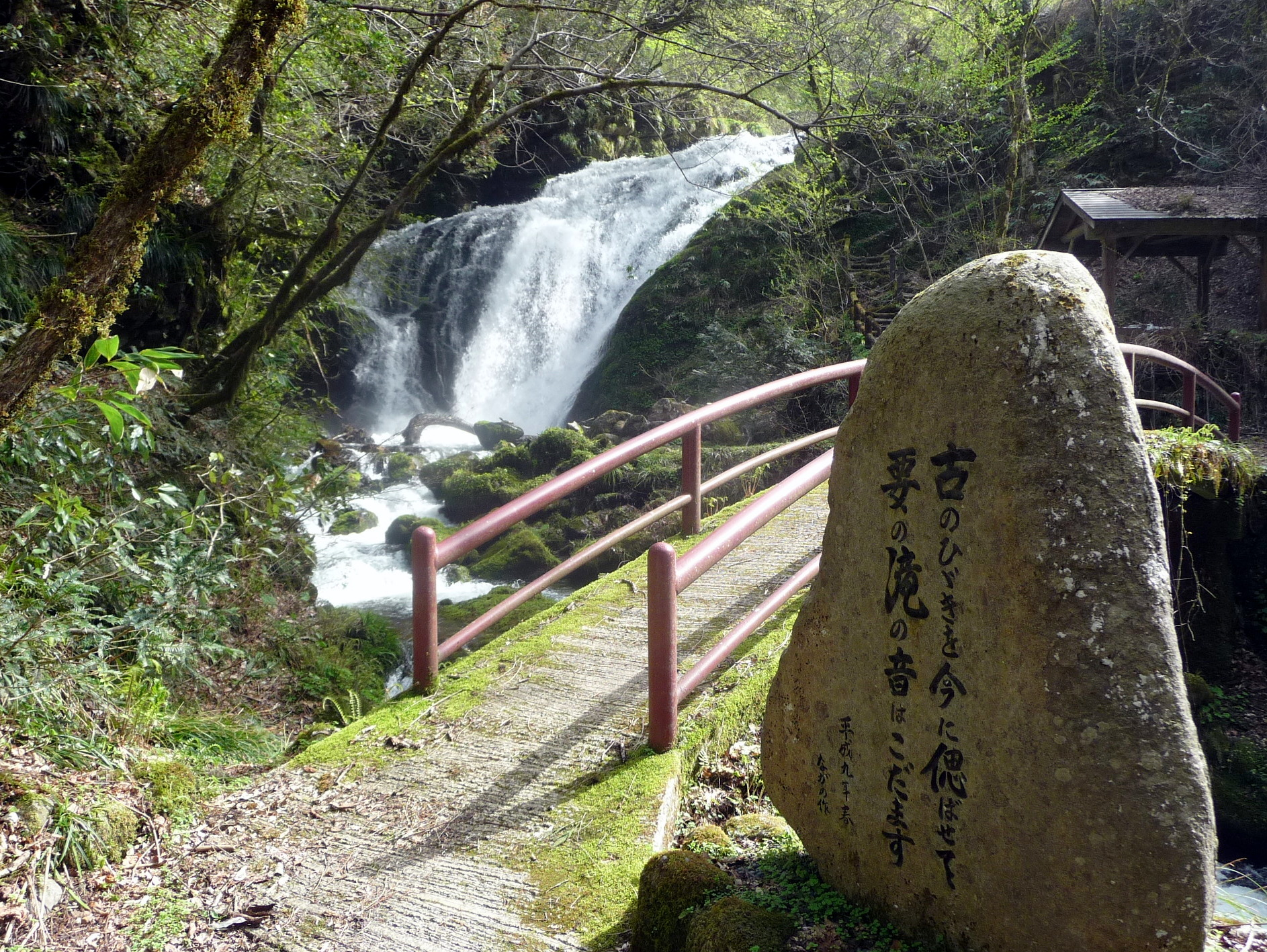 Kaname-no-taki falls, Kusube Valley, in Ojiro, Kami Town, Hyogo Prefecture, Japan